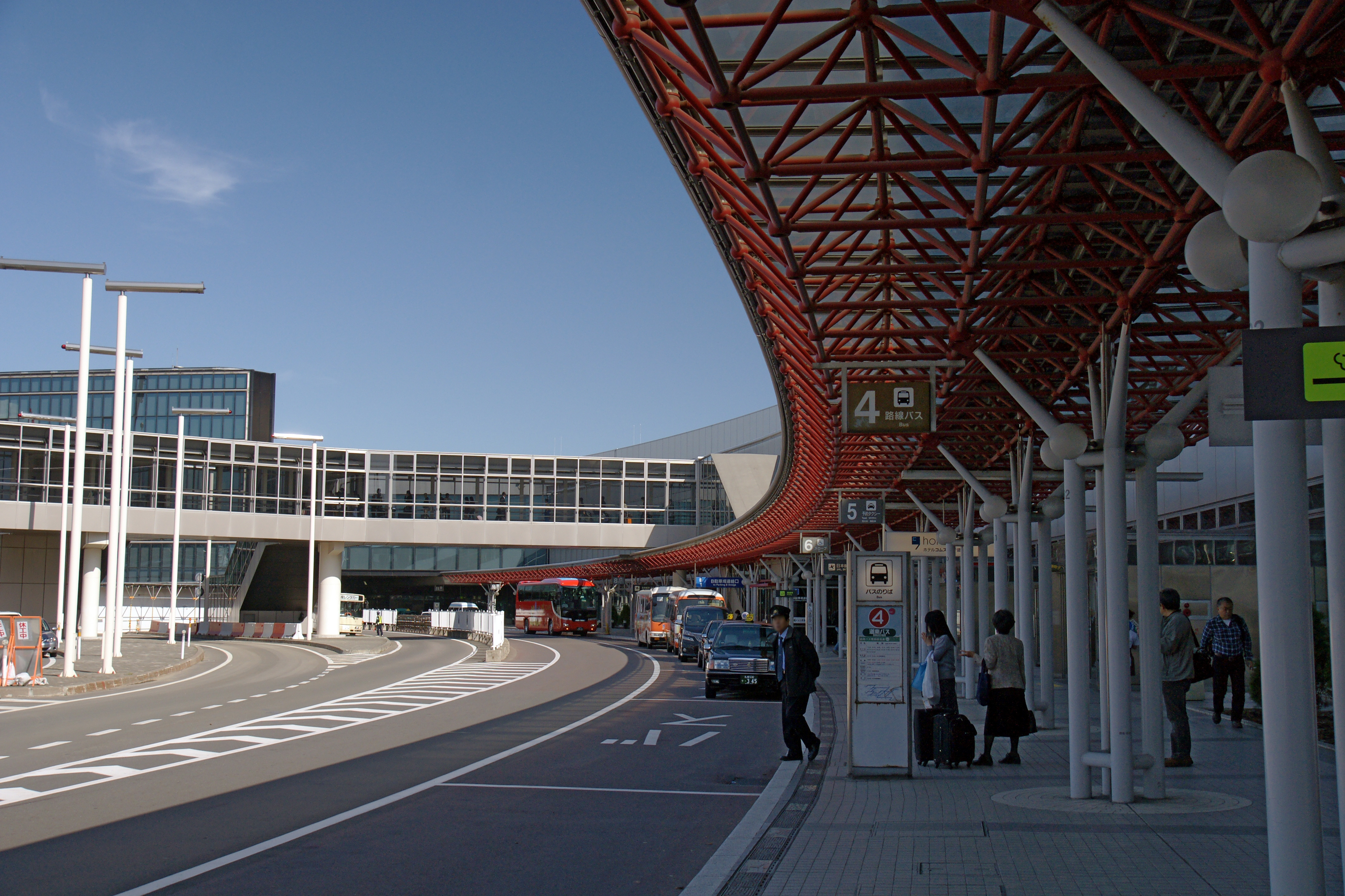 New Chitose Airport, Chitose, Hokkaido prefecture, Japan